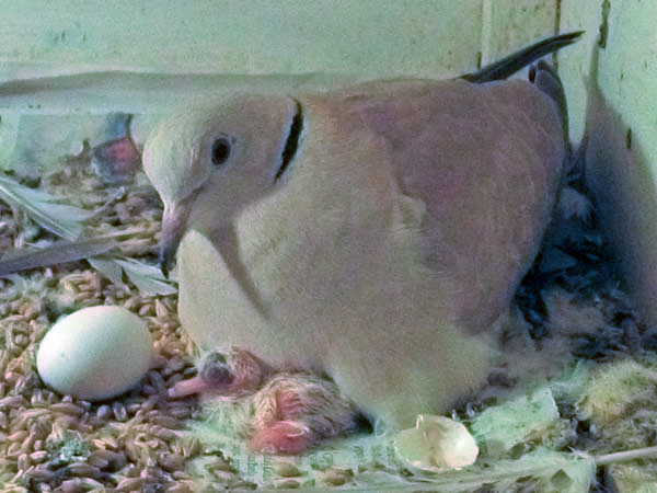 A Eurasian Collared Dove with offspring.